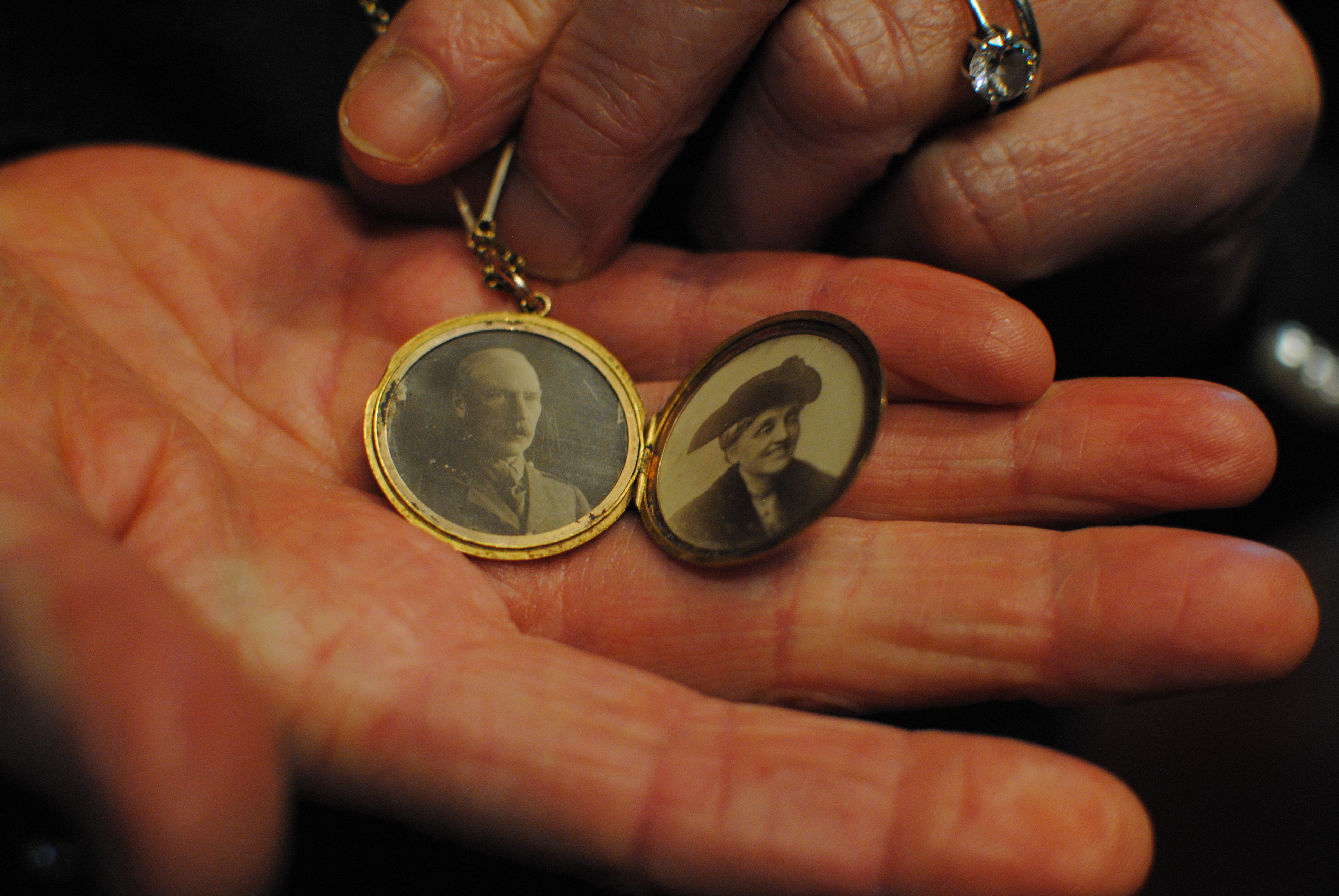 Locket containing pictures of Sir Gilbert Barling and his wife, worn by one of his great-granddaughters at the unveiling of Birmingham Civic Society's Blue Plaque, honouring their founder chairman, Sir Gilbert Barling, at the Church of St Augustine of Hippo, Edgbaston, Birmingham, England.